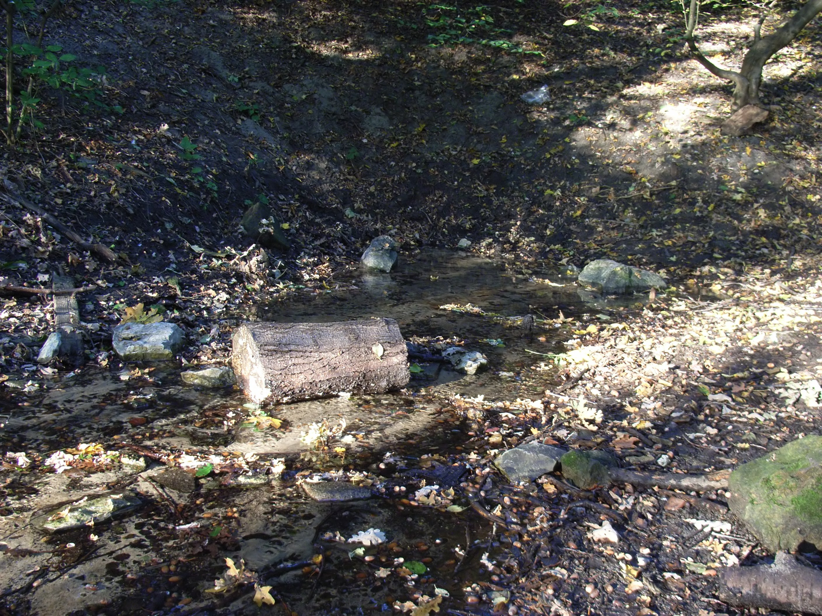 Bielefeld, Germany: source of Lutter River.